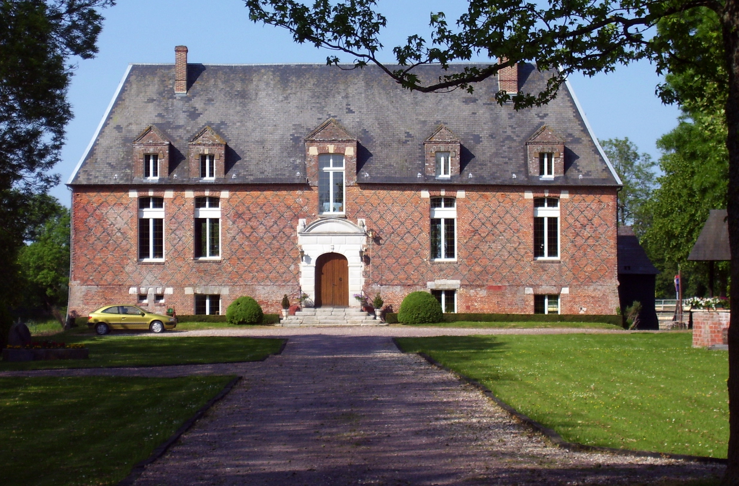 The fief "de la Fortière" in Épreville-en-Lieuvin (France) was mentioned in records in 1463 for the first time. This manor house was built in the first half of the 17th century. It was heavily damaged by a fire in 1911.